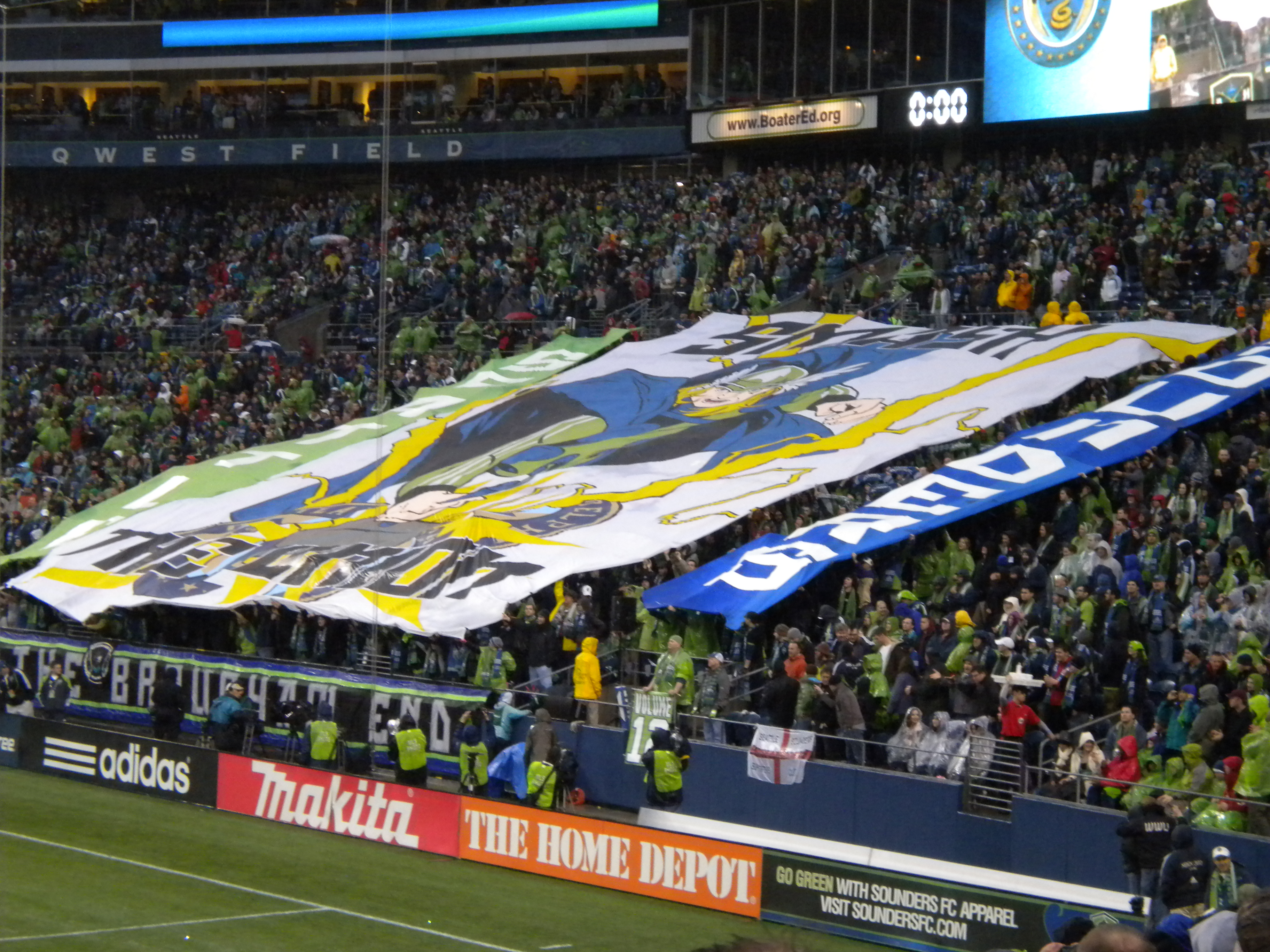 The Emerald City Supporters display their tifo before the first game of the 2010 MLS season at Qwest Field between Seattle Sounders FC and the Philadelphia Union. In the center is a picture of Thor wearing a Sounders FC jersey and smashing the Union logo. It reads "Smash the Union" in the center, "Seattle" vertically on the left, and "Sounders" on the right.